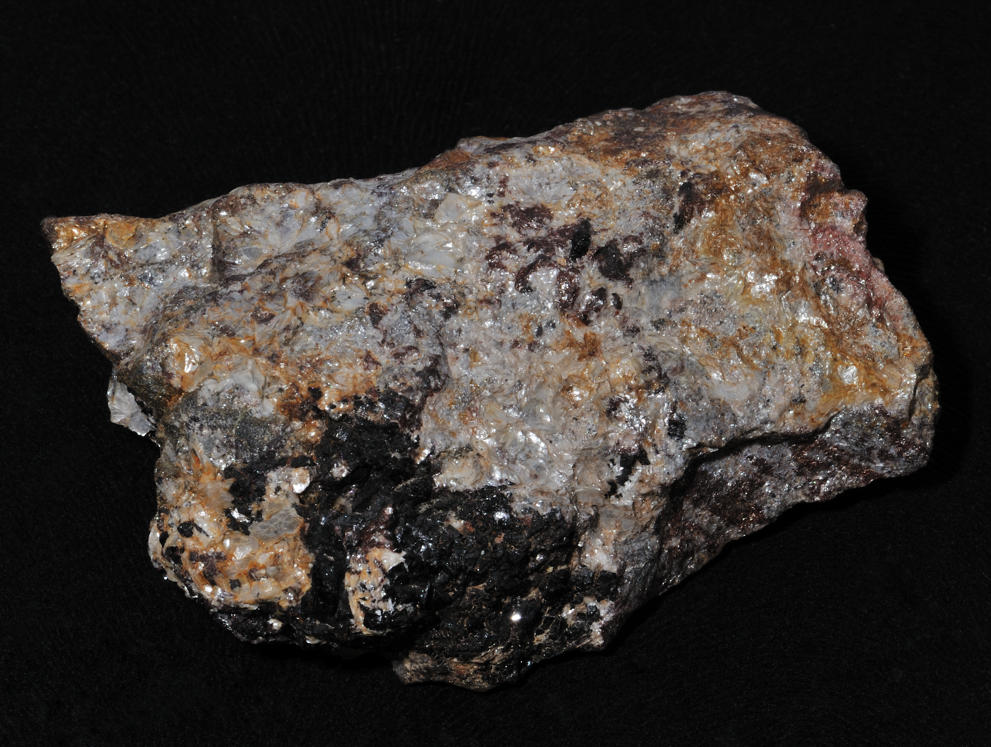 A peace of untreated emery from Naxos